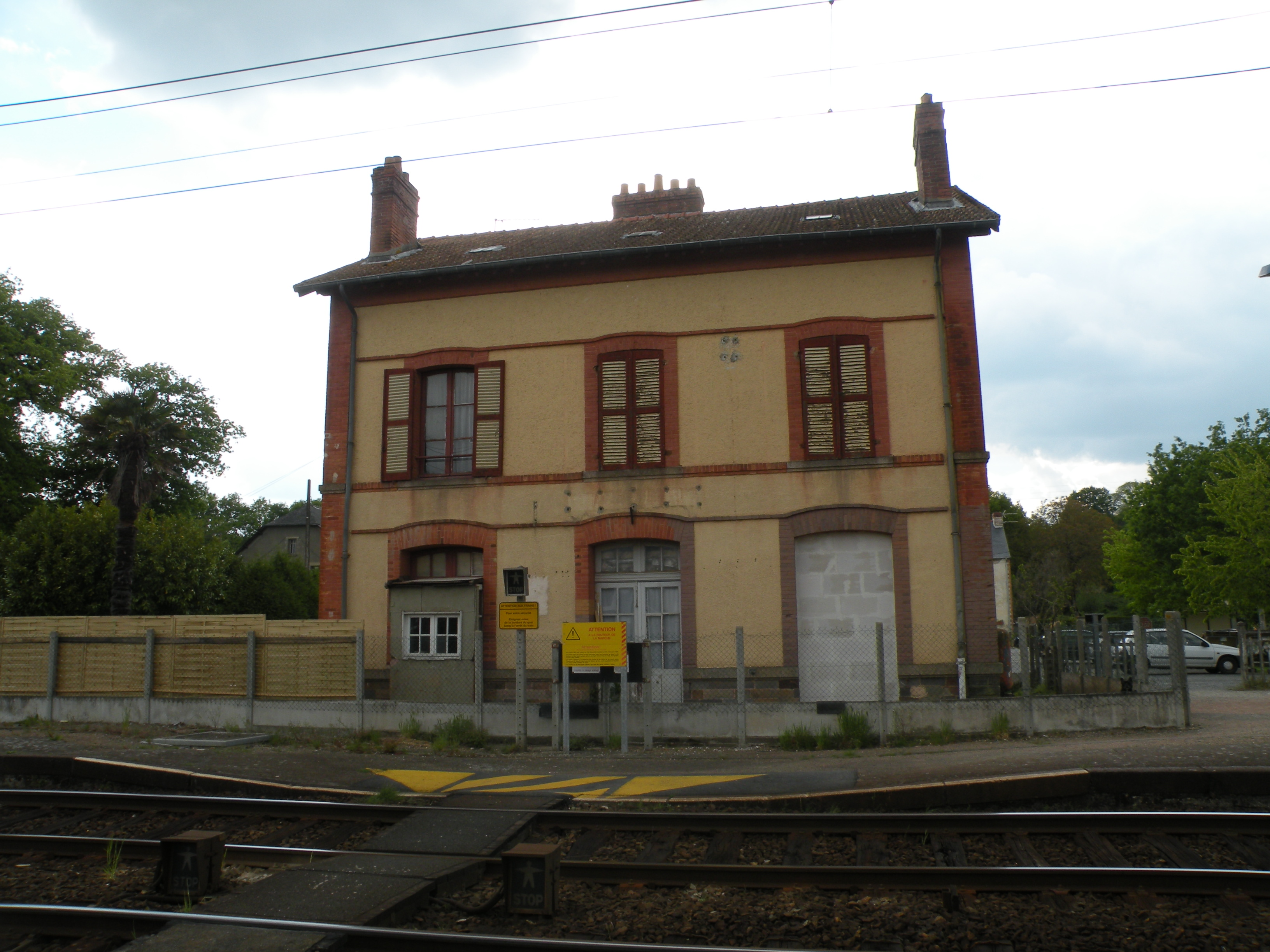 Fougeray - Langon station in Langon.